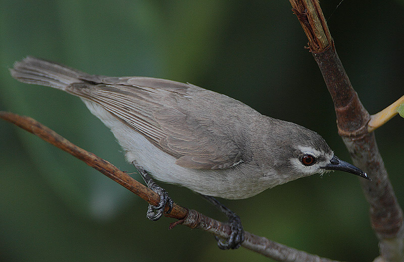 Taken at Makasutu, The Gambia. Close-up of an adult in mangrove forest.